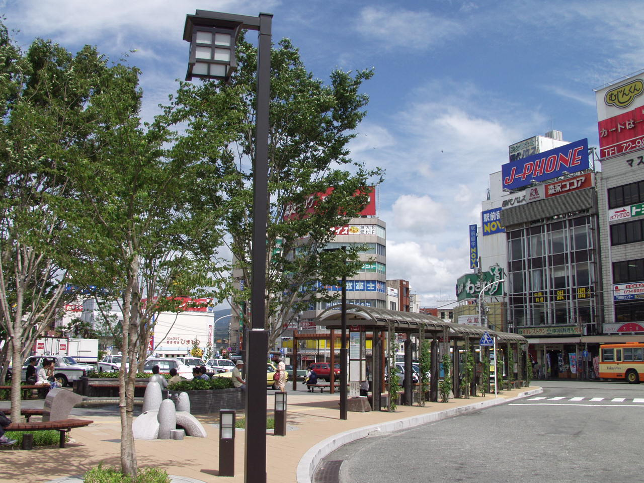 At JR Mishima Station